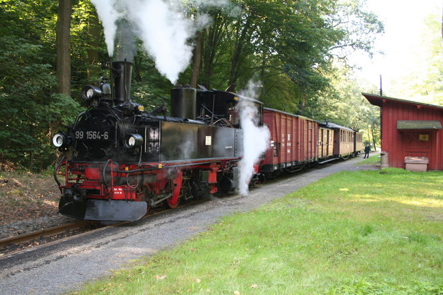 Narrow gauge train at Friedewald, near Dresden